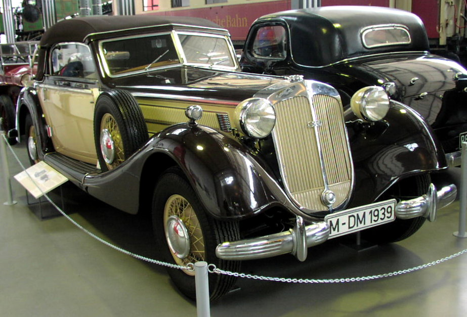 Horch 853 A (1939)